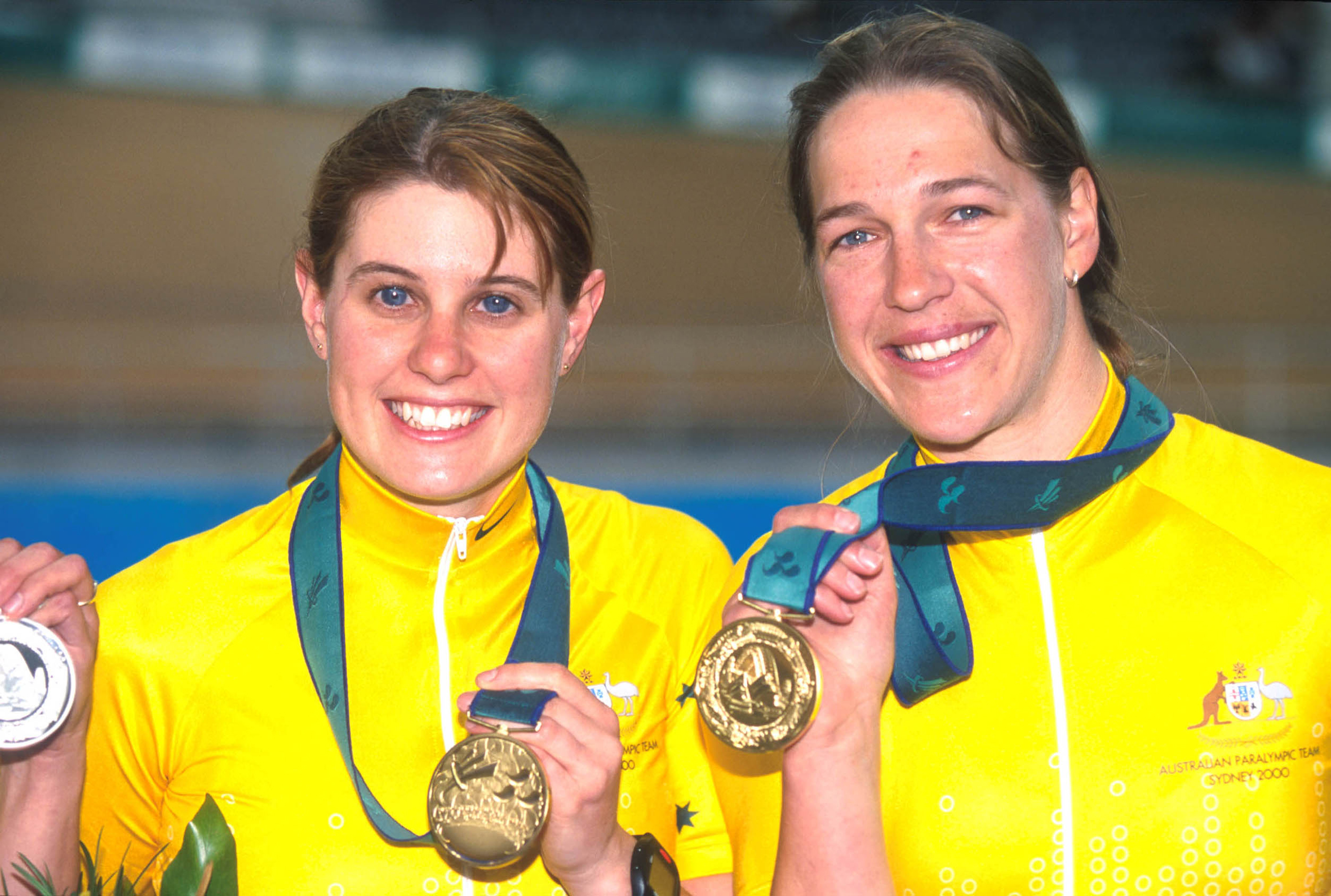 Australian track cyclists Tania Modra and Sarnya Parker showing their gold medals won at the 2000 Sydney Paralympic Games